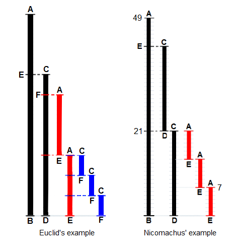 A detail from the 1908 document with more lines and details added in color. A companion illustration to Euclid's_ algorithm_Book_VII_Proposition_2_1.png